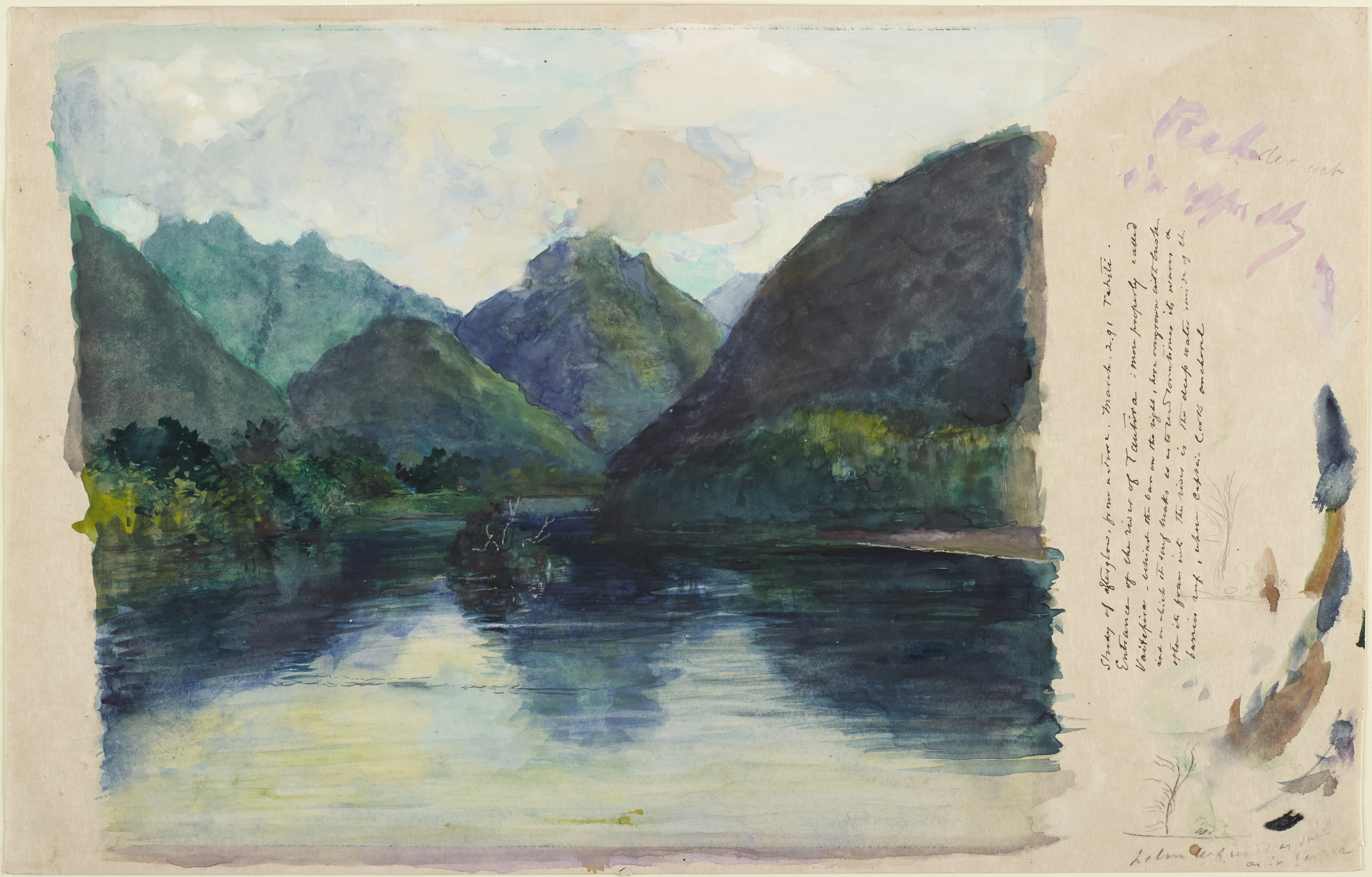 John La Farge, American, 1835–1910 Study of Afterglow from Nature (Tahiti: Entrance to Tautira Valley), 1891 Watercolor and gouache with graphite and black colored pencil on cream wove paper 21.2 x 33.2 cm. (8 3/8 x 13 1/16 in.) Museum purchase, gift of Leonard L. Milberg, Class of 1953 x1988-108 La Farge was already an established and influential artist and decorative designer in 1890 when he embarked on a fifteen-month trip with the historian John Adams to explore the exotic culture and landscape of the South Seas. Painted on the spot at twilight, this topographically accurate view of the imposing entrance to Tahiti’s Tautira Valley captures the richly layered effects of La Farge’s watercolor technique. His somber palette of commingled blues and greens underscores the mysterious aspects of the volcanic island, with its deep shadows, cloud-tipped peaks, and still waters.